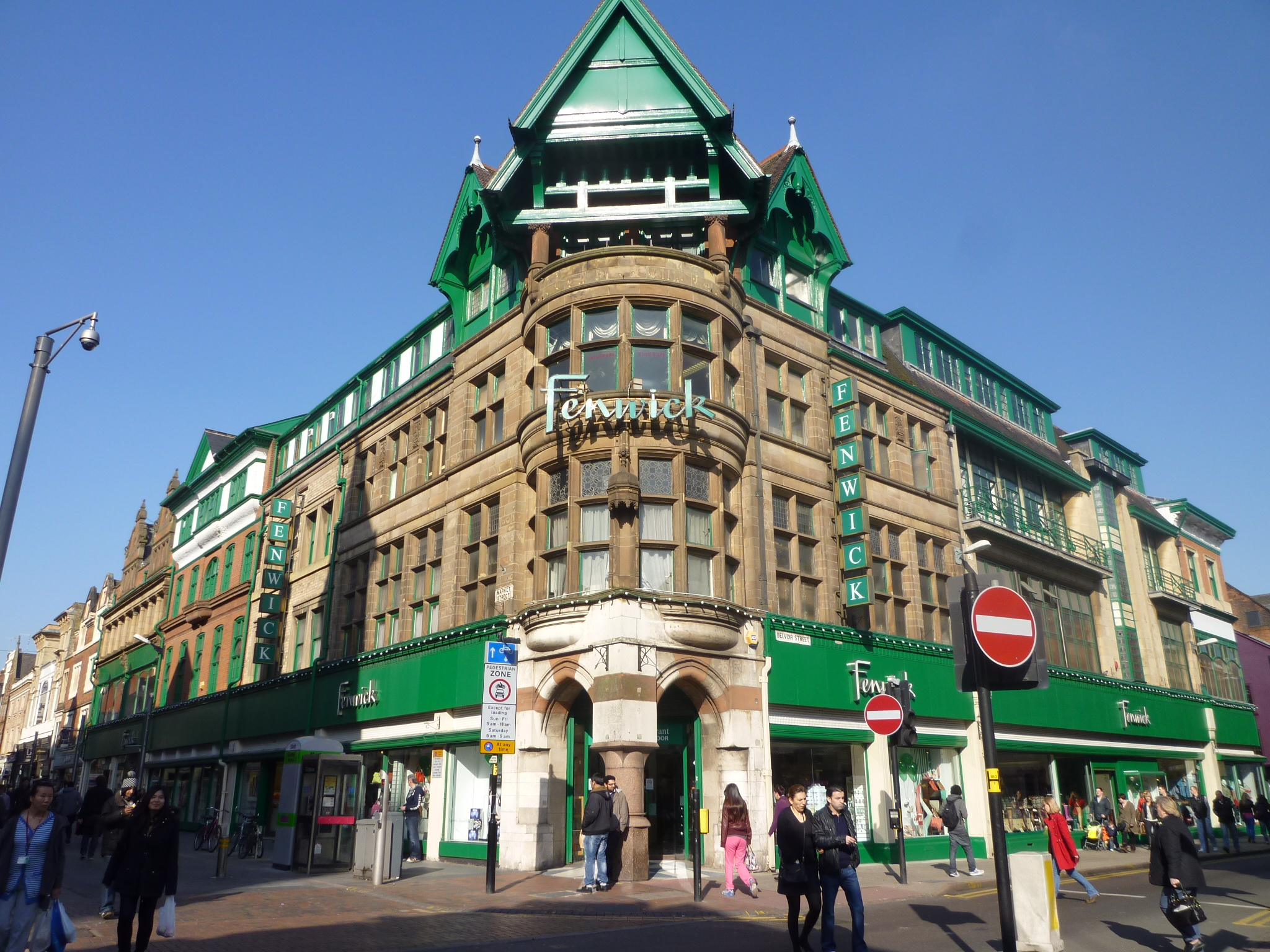 Built in 1880 and designed by Isaac Barradale (1845 - 1892) , one of Leicester's most successful architects, an exponent of the Arts and Crafts movement. The building originally housed Joseph Johnson and Company Limited, a drapery store and was taken over by the Fenwick Group in the early 1960s.